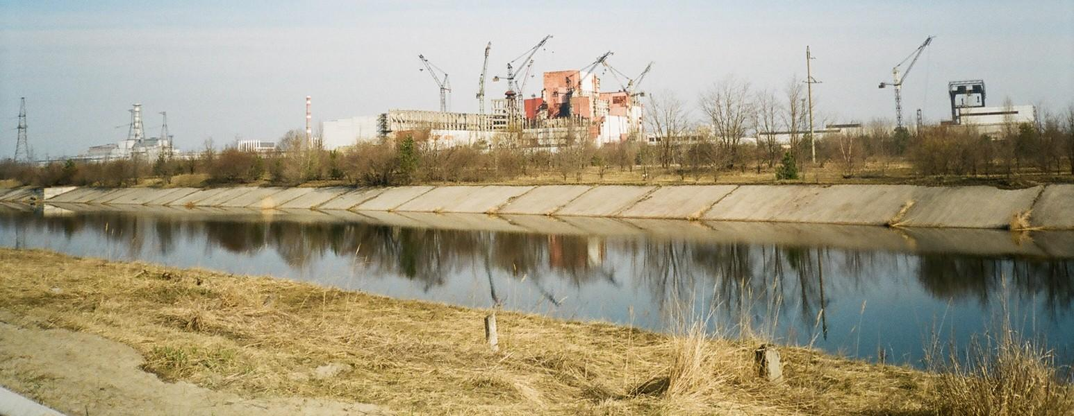 The abandoned units (No. 5 and No. 6) of the Chernobyl Nuclear Power Plant